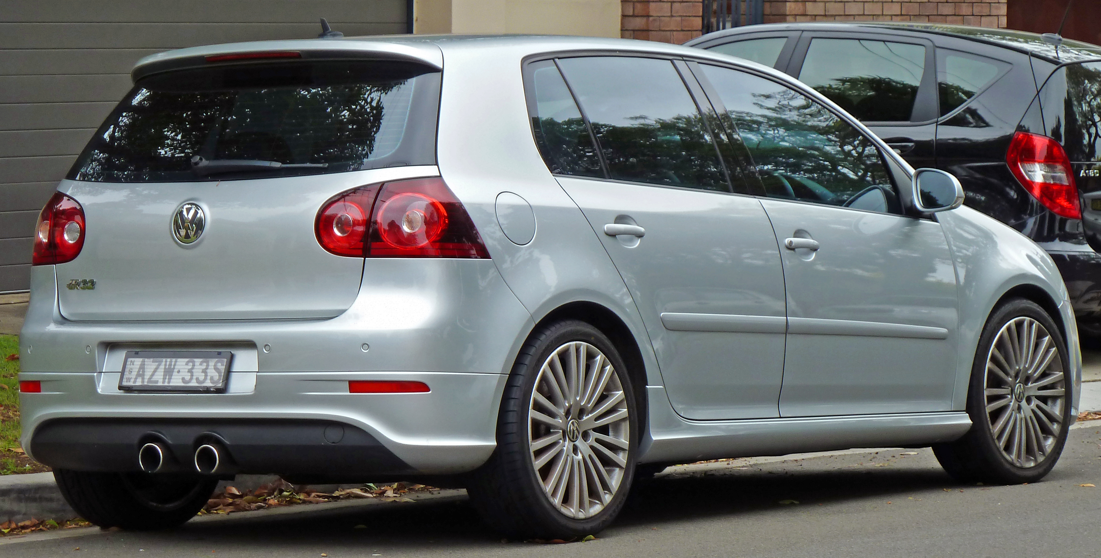 2006 Volkswagen Golf (1K MY07) R32 4MOTION 5-door hatchback. Photographed in Bellevue Hill, New South Wales, Australia.